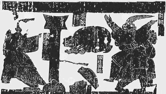 Chinese tomb mural at Han dynasty. Jing Ke vs Qin Shi Huang